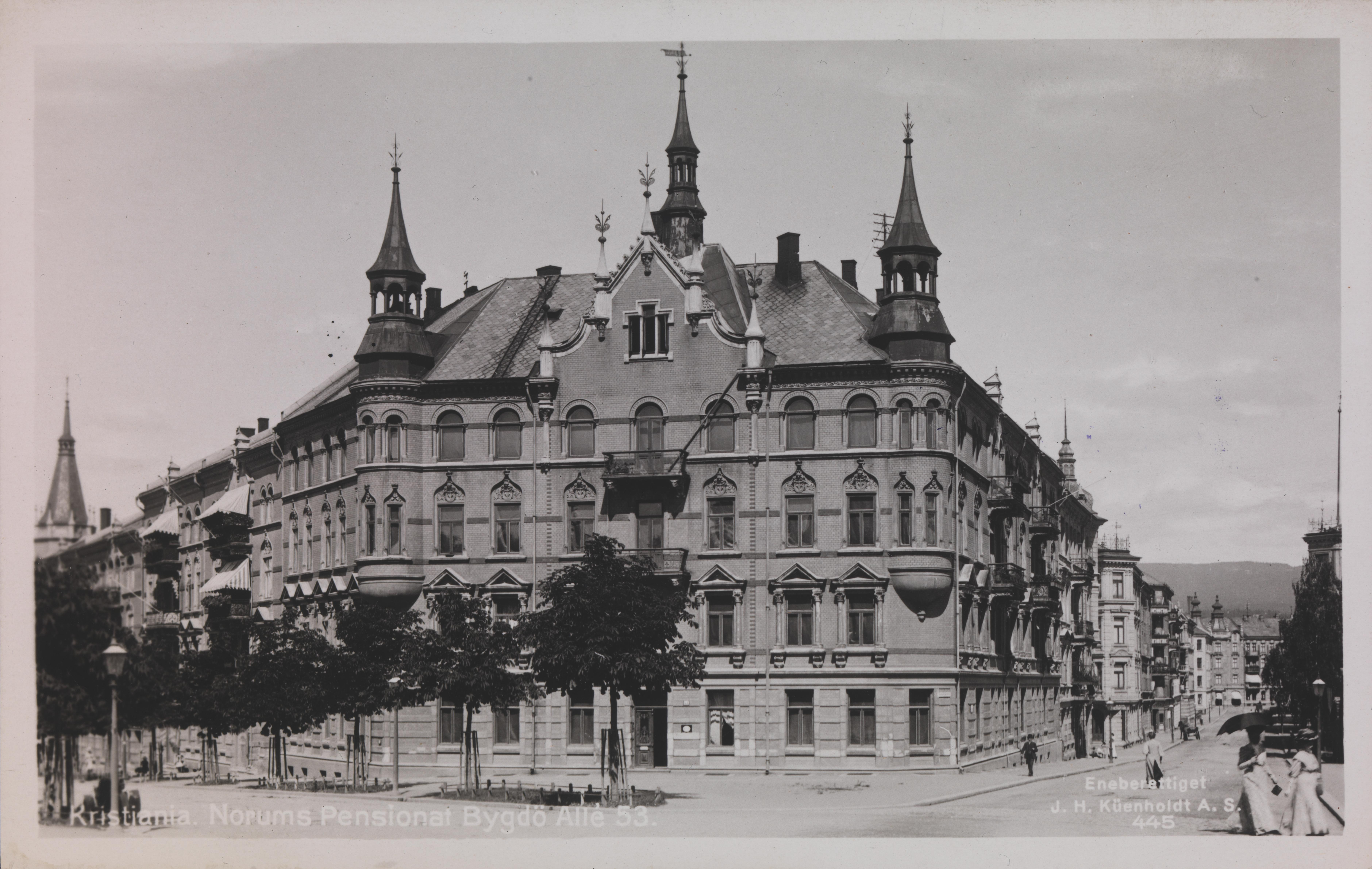 Former Norum Pension or Norum hotell now Rica Hotel Bygdøy Allé in Bygdøy allé 53 in Oslo. Arch. Samuel Borgfelt